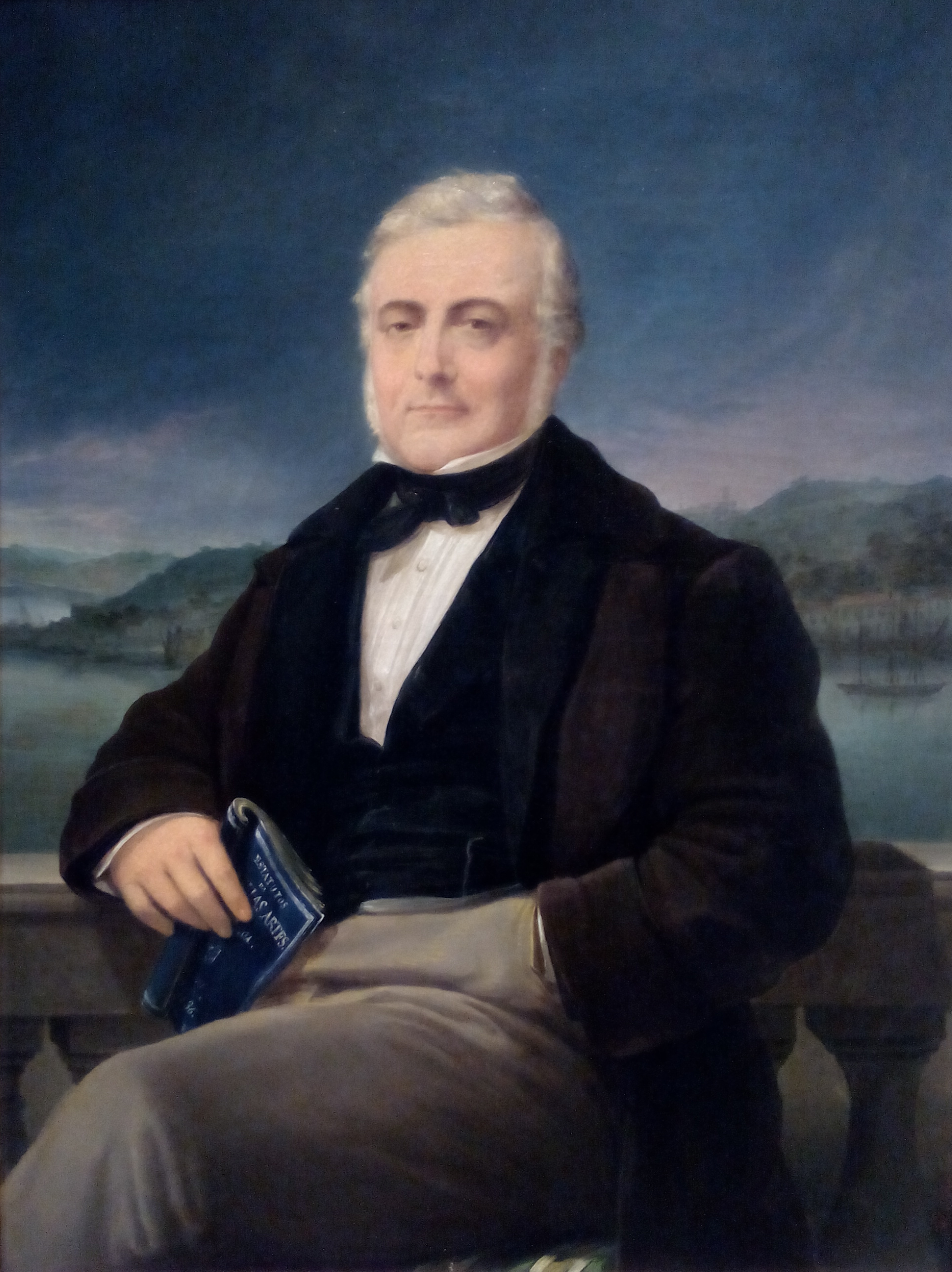 Portrait of Portuguese Prime Minister Passos Manuel (1801-1862), in the collection of the National Academy of Fine Arts (Academia Nacional de Belas Artes). He holds, in his right hand, the Statutes of the Academy.